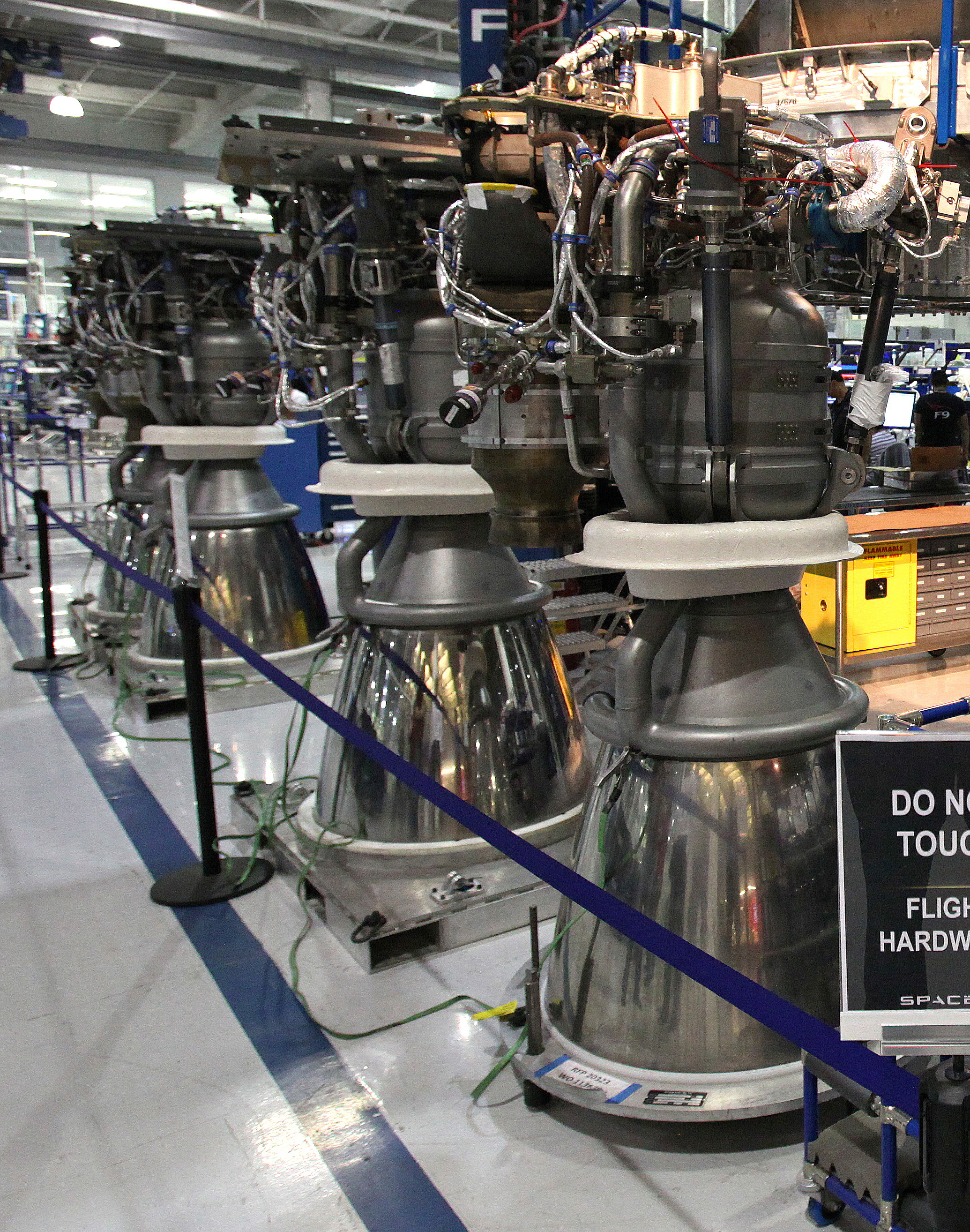 Several Merlin 1D rocket engines are seen alongside the "Octaweb" harness which holds a ring of eight Merlins with a ninth in the middle. Photo taken at the SpaceX facility in Hawthorne, California. Cropped version.